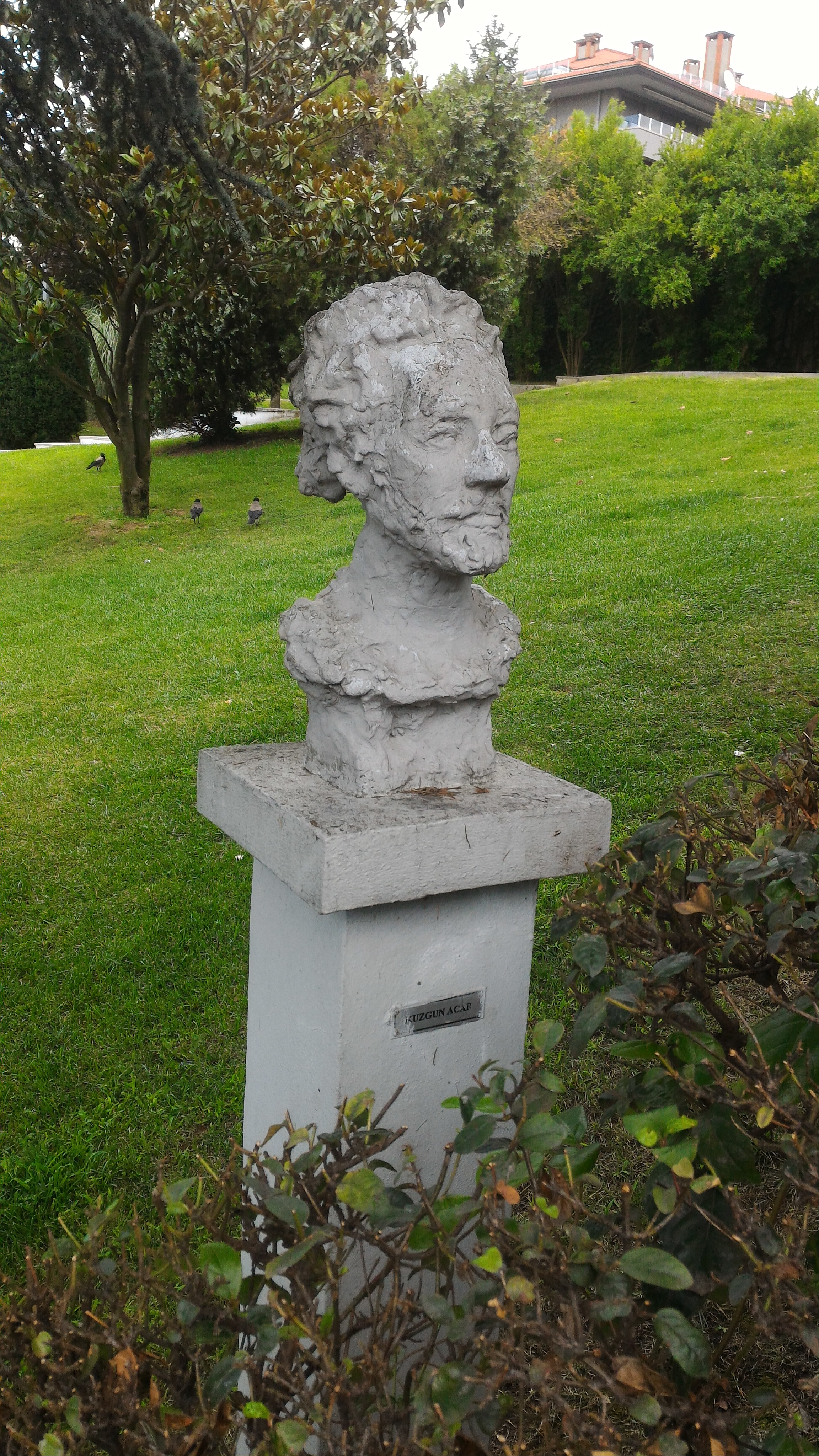 Bust of Kuzgun Acar by Gürdal Duyar in the Akat Artists' Park in the Besiktas Municipality of Istanbul